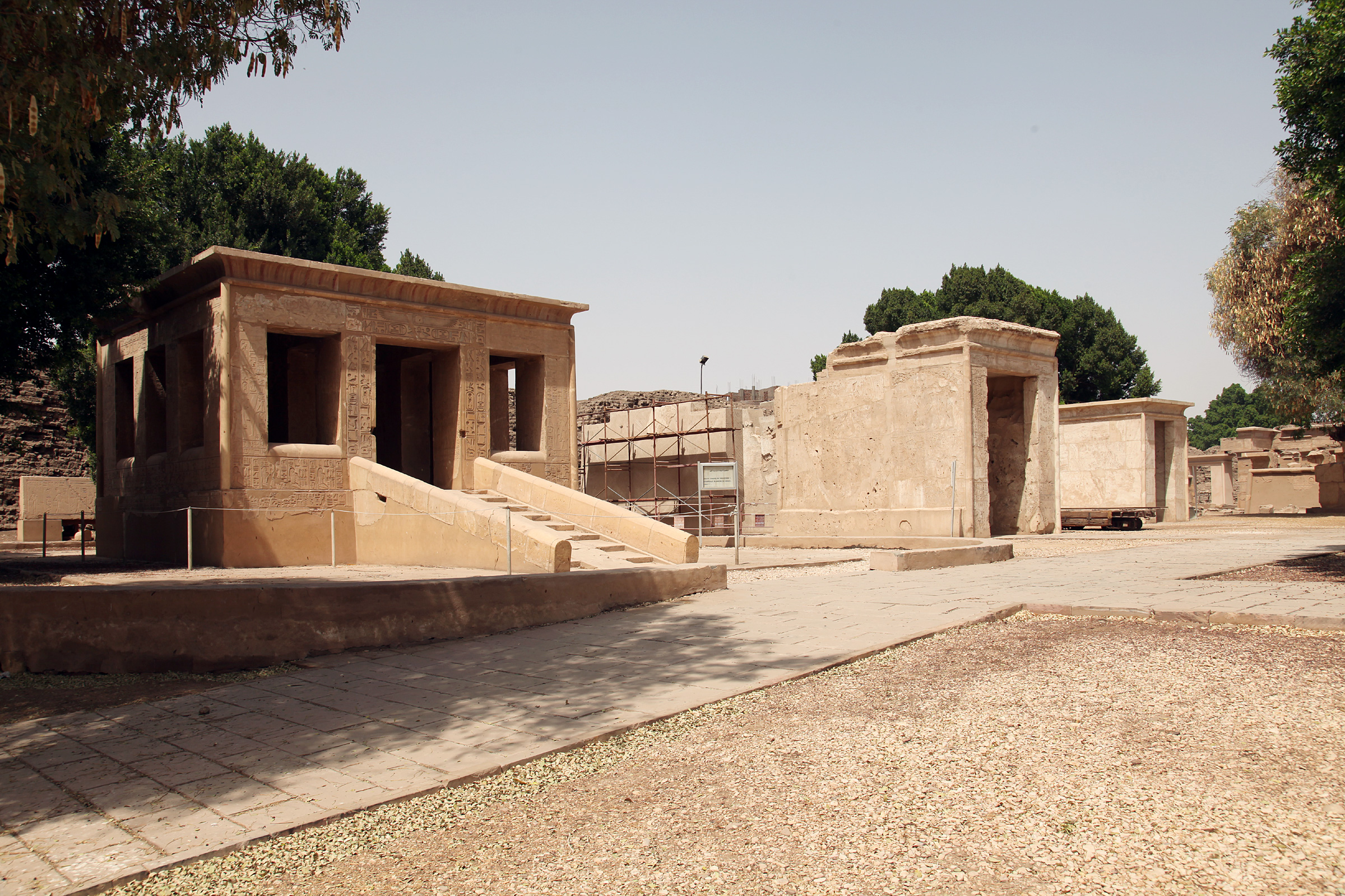 Chapels of several Egyptian kings at the Karnak open air museum